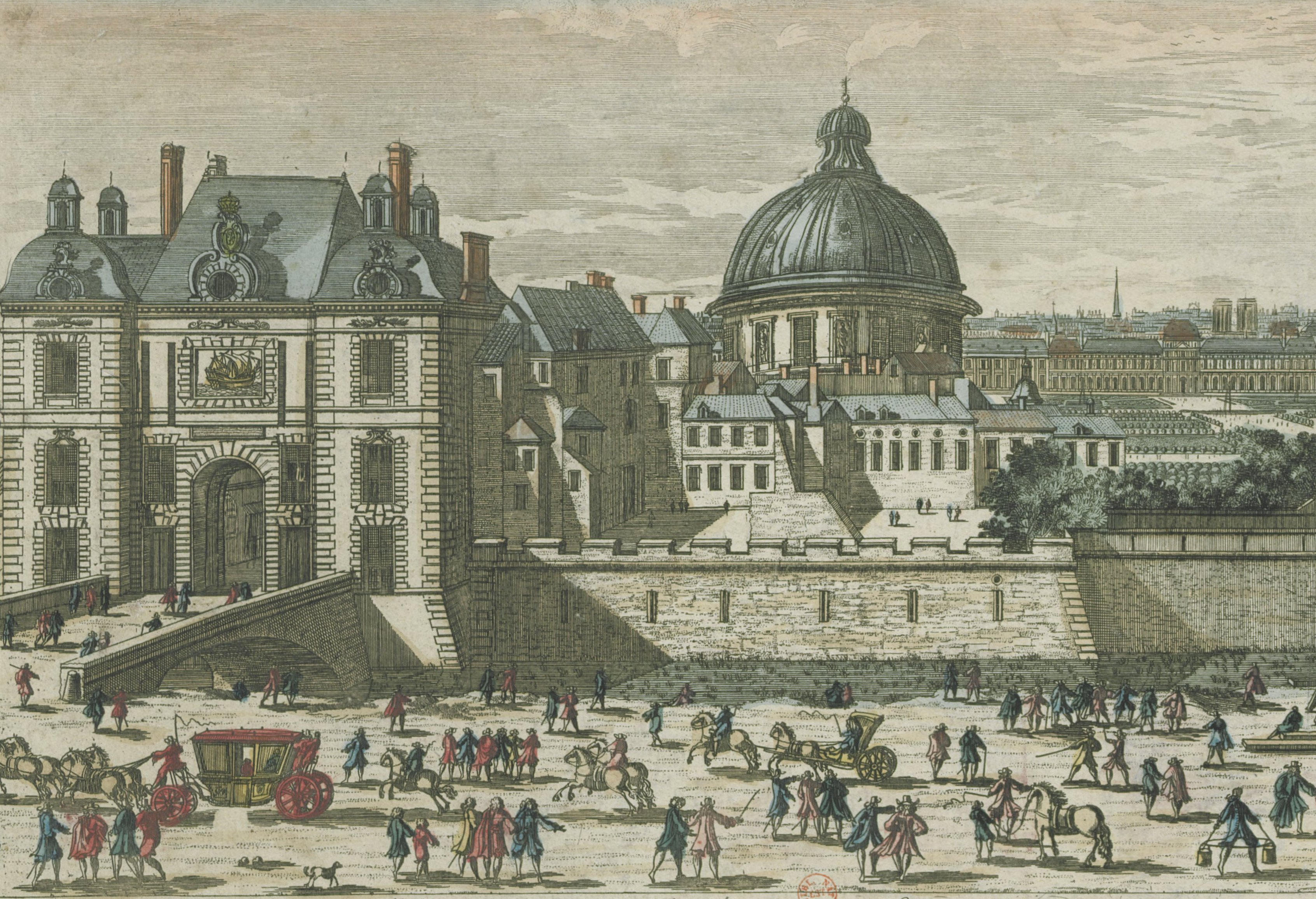 The porte Saint-Honoré in the XVIIe century. On the right, the church Notre-Dame-de-l'Assomption de Paris : Paris 1st arr.